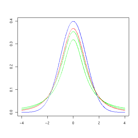 plot of t-distribution, 3 df